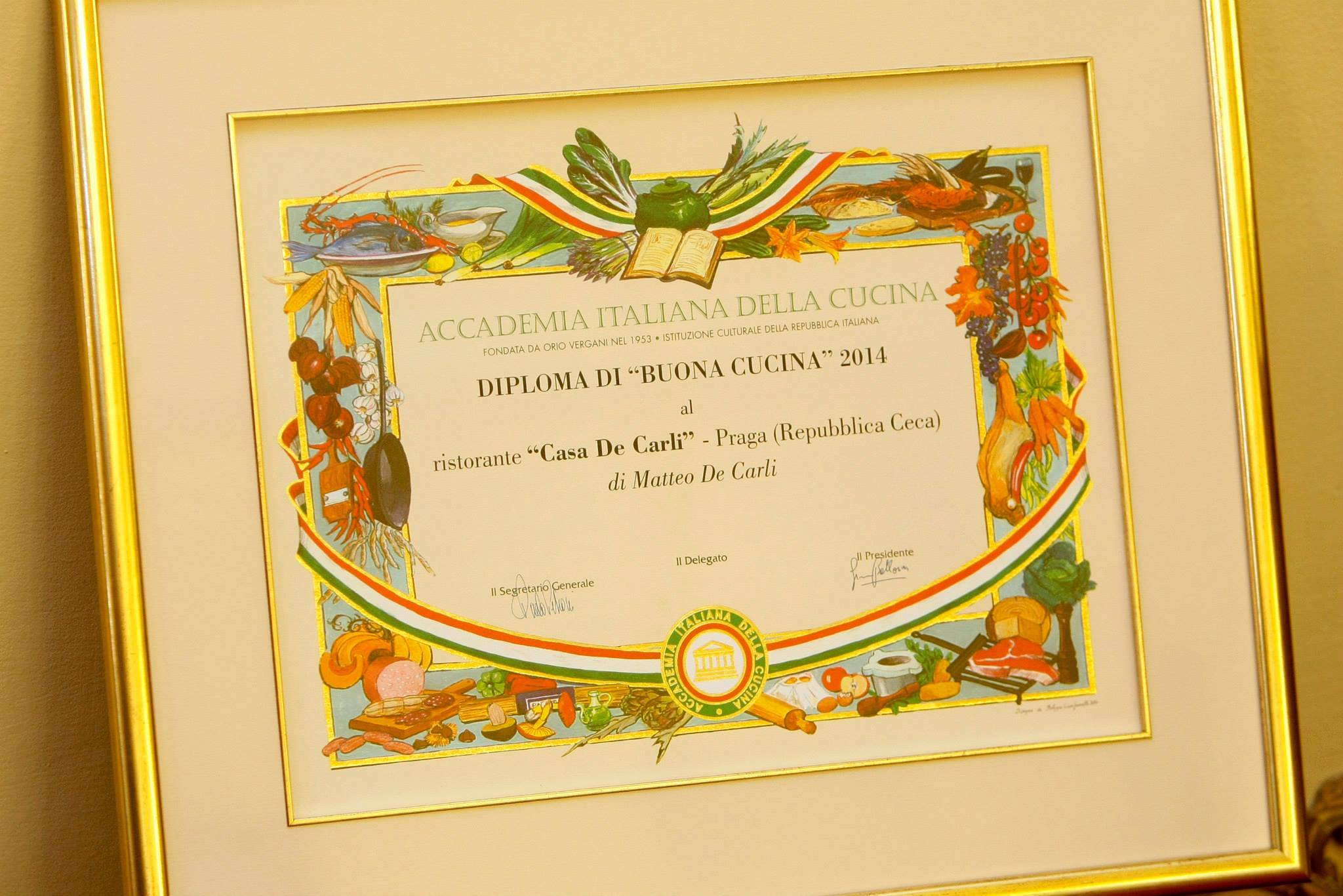 Diploma awarded to Matte De Carli from Accademia italiana della cucina